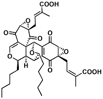 torreyanic acid - gif file